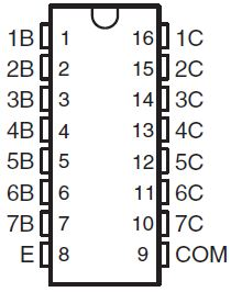 The ULN2003 pinout description